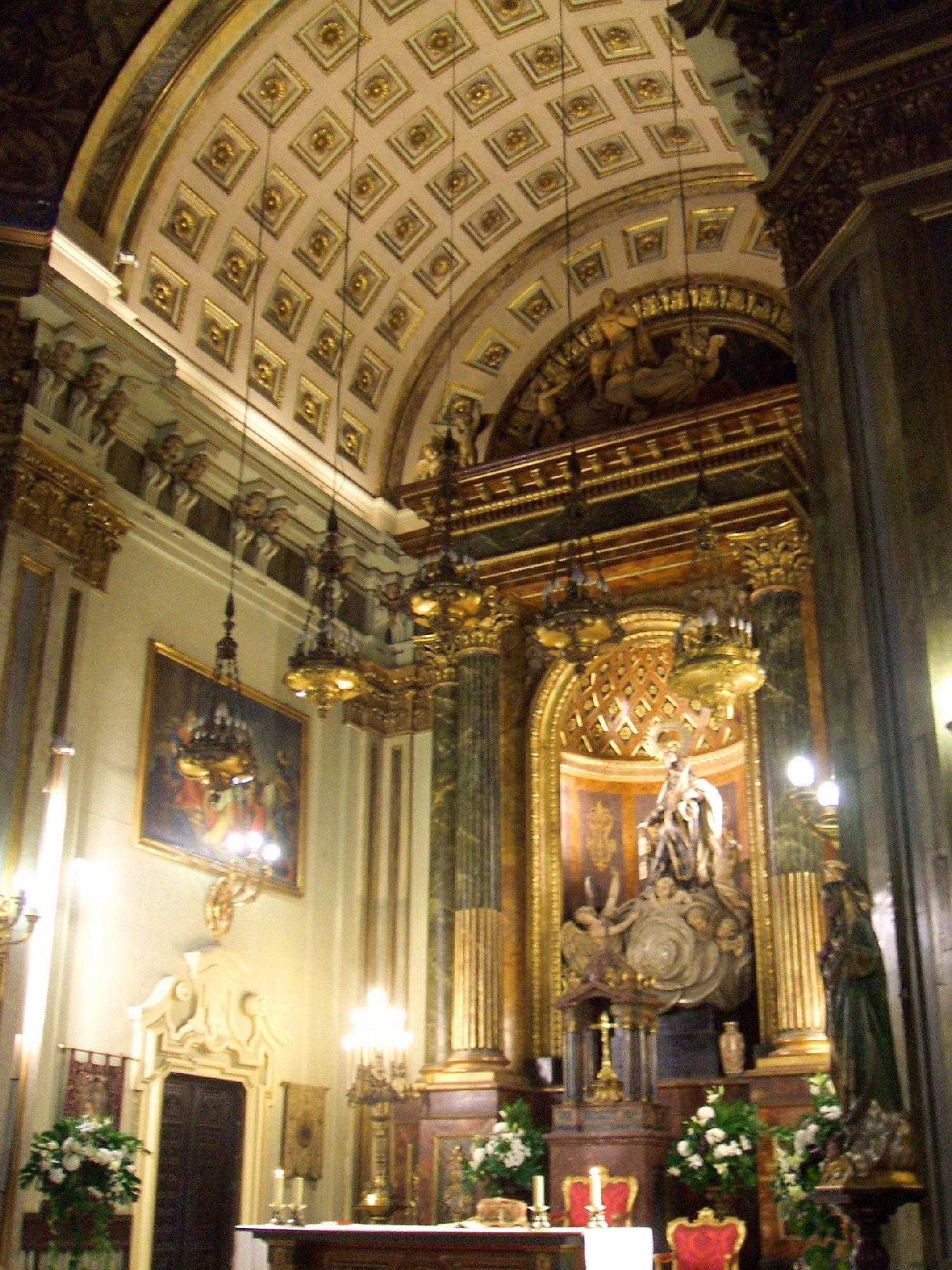 Iglesia de San José (Madrid)